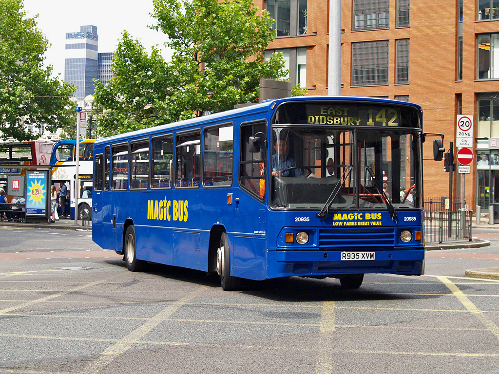 Stagecoach Manchester 20935 R935 XVM, a Volvo B10M-55 built 1997 with an Alexander ‘PS’ B49F body turns out of Piccadilly Gardens bus station, Manchester onto Portland Street with a Manchester Piccadilly Gardens to East Didsbury (Parrs Wood) via Wilmslow Road 142 service. Friday 25th July 2008